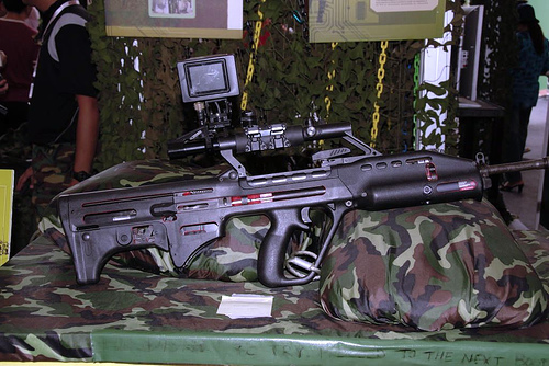 SAR 21 with attached Round Corner Firing (RCF) module